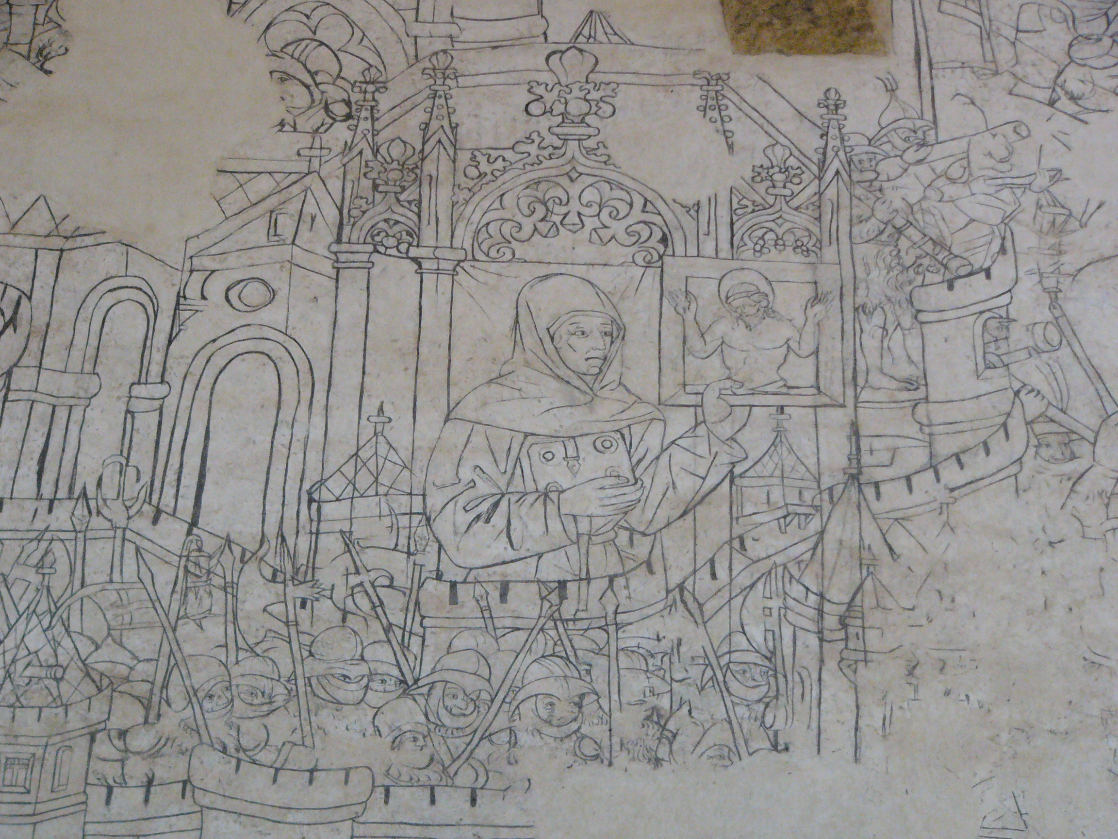 Detail of gothic fresco Siege of Belgrade (1456) in Church of Immaculate Conception of Virgin Mary in Olomouc (in